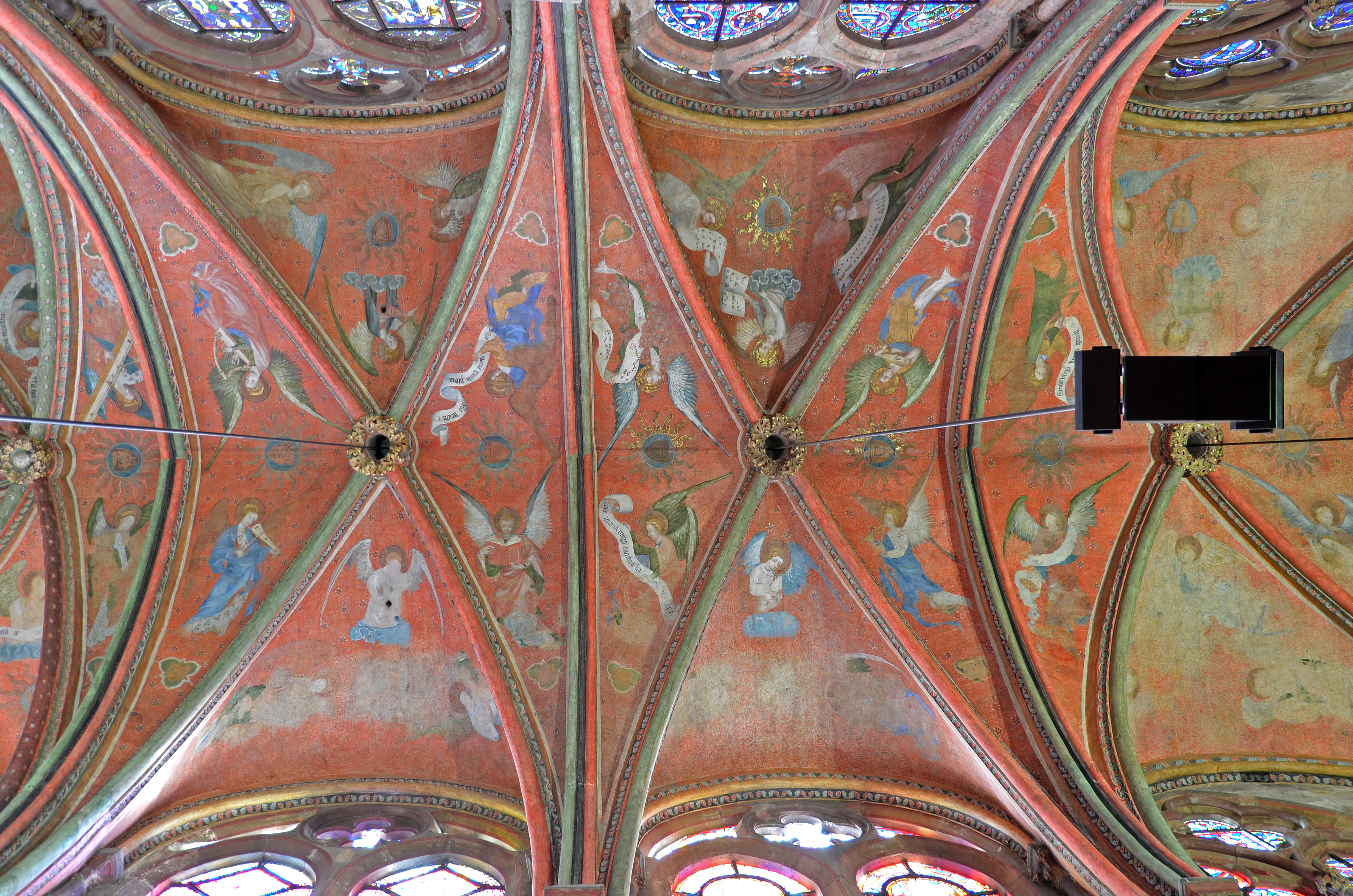 Vault of the Virgin Chapel - Saint-Julien cathedral - Le Mans (Sarthe) .